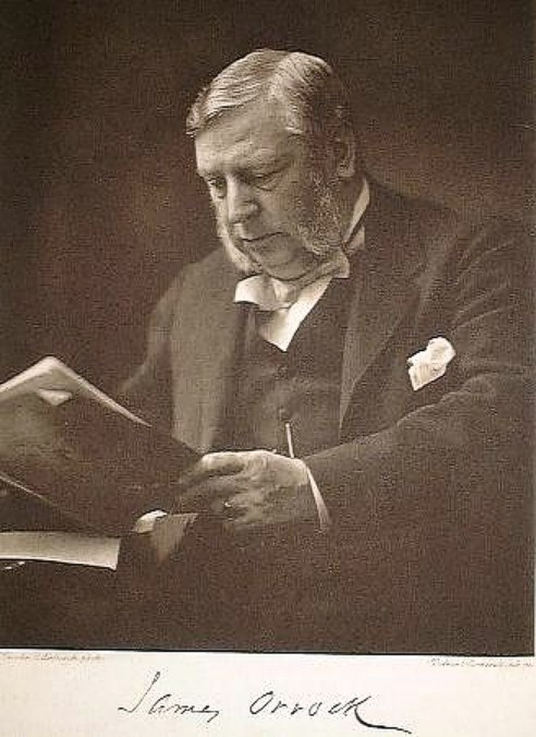 Photograph of James Orrock (1829-1913), Scottish artist and art collector